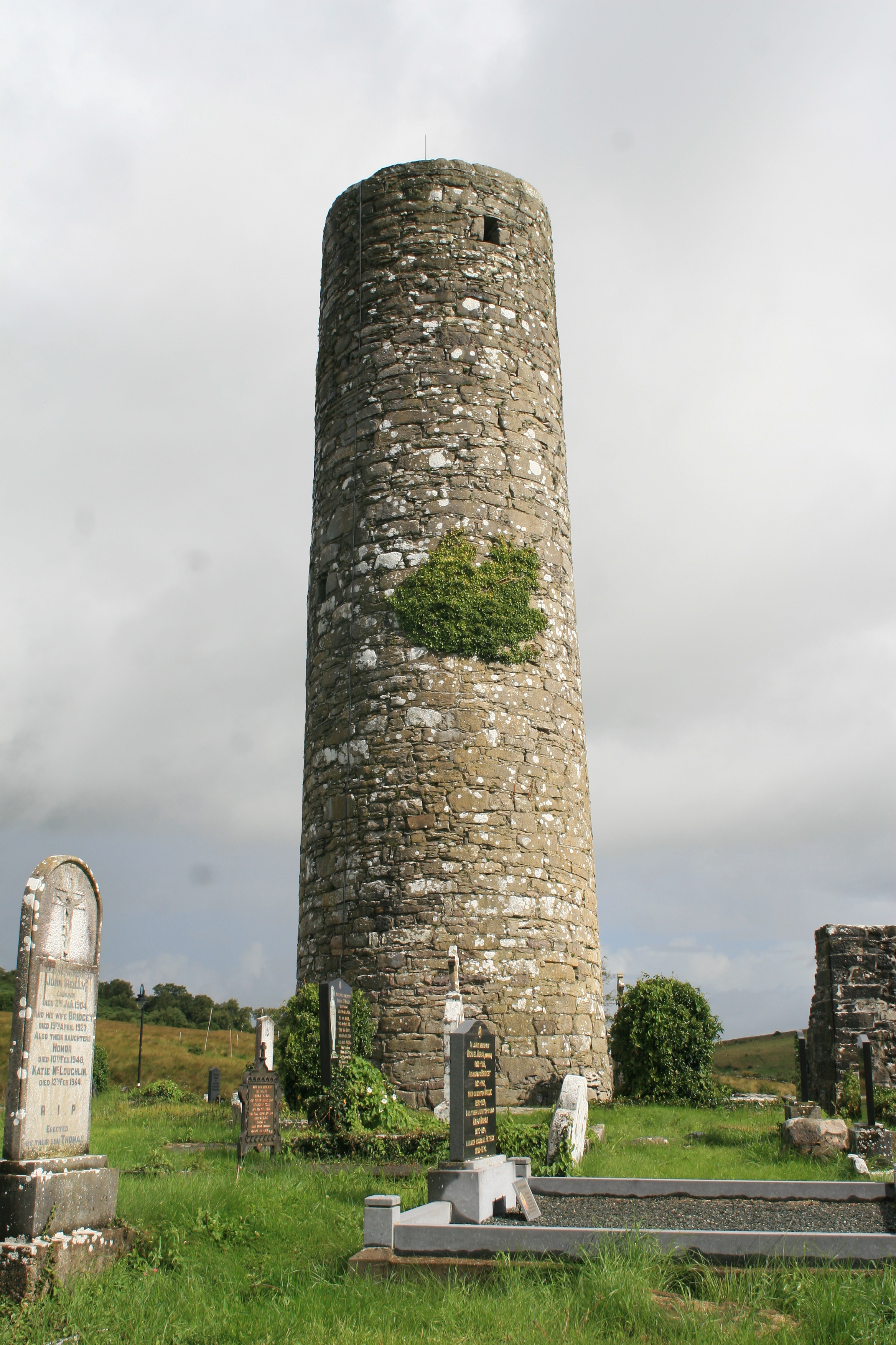 Aghagower, County Mayo, Ireland Round tower of the monastic site at Aghagower